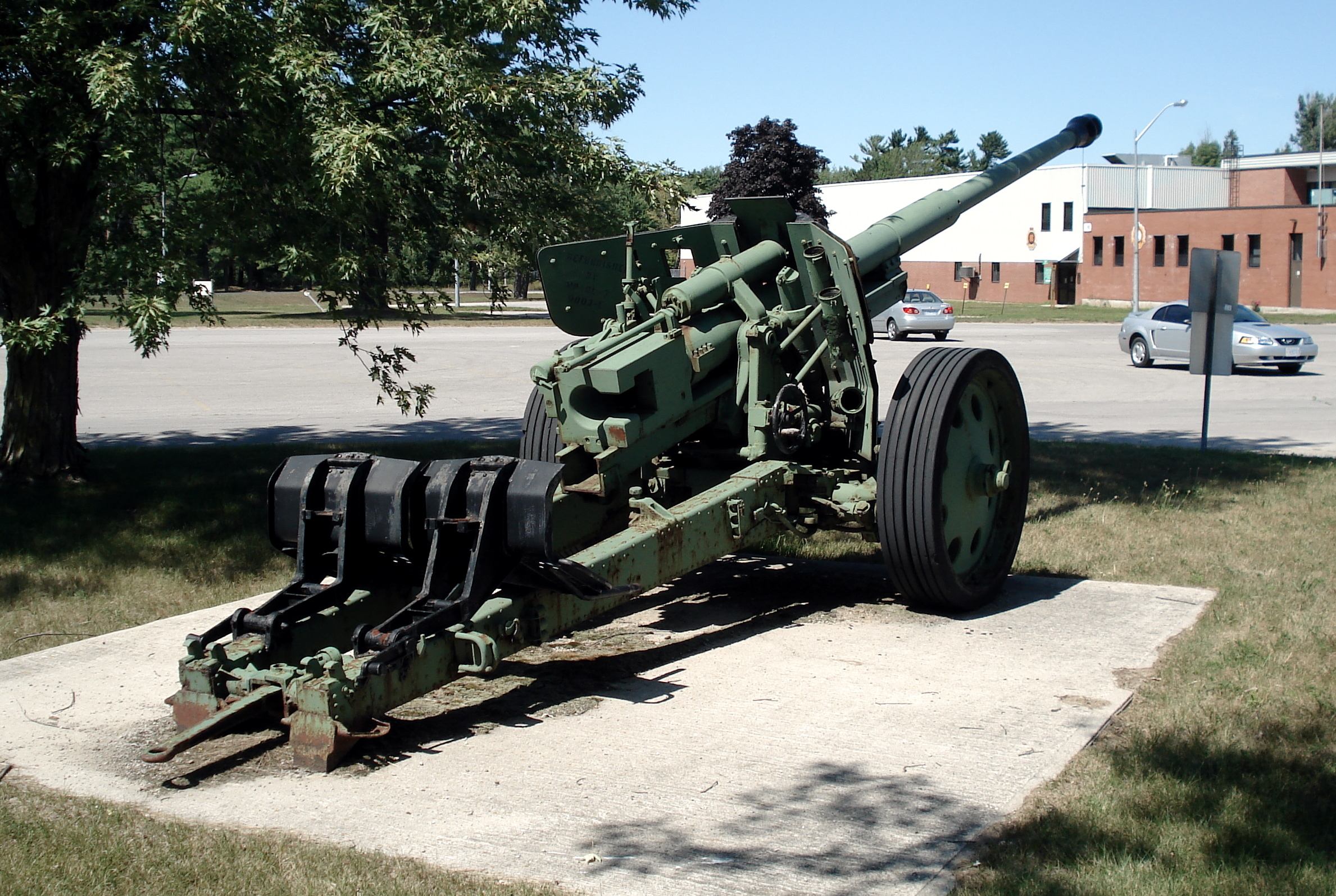 German PaK 43/41 88 mm anti-tank gun, displayed on the grounds of CFB Borden (Base Borden Military Museum). Photo taken on August 12, 2006. Source: Photo by me, User:Balcer.